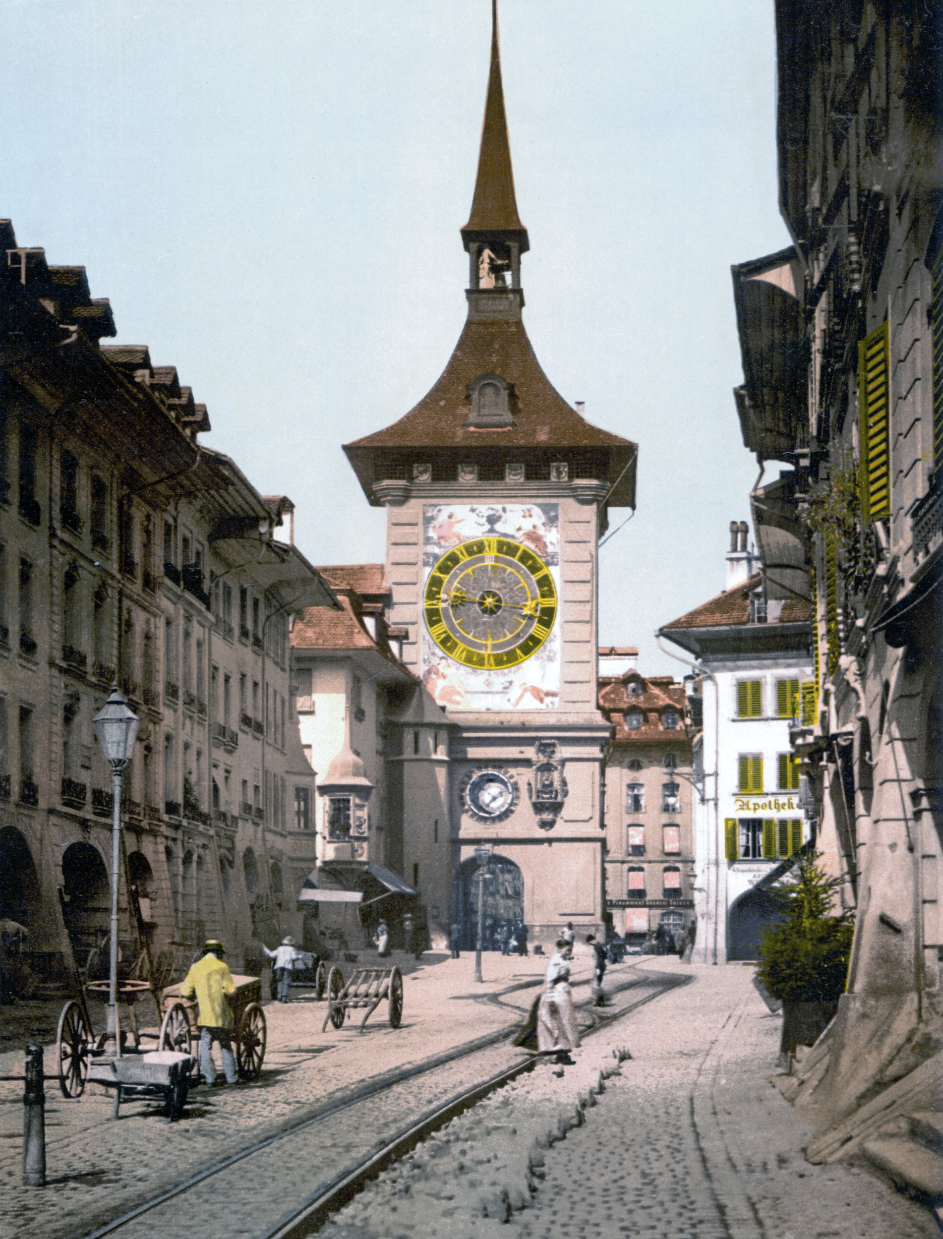 Clock tower of Bern from around 1900